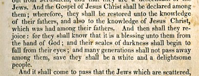 The Book of Mormon: An Account Written by the Hand of Mormon, Upon Plates Taken from the Plates of Nephi, 2 Nephi 30:5-6, from the 1830 version.